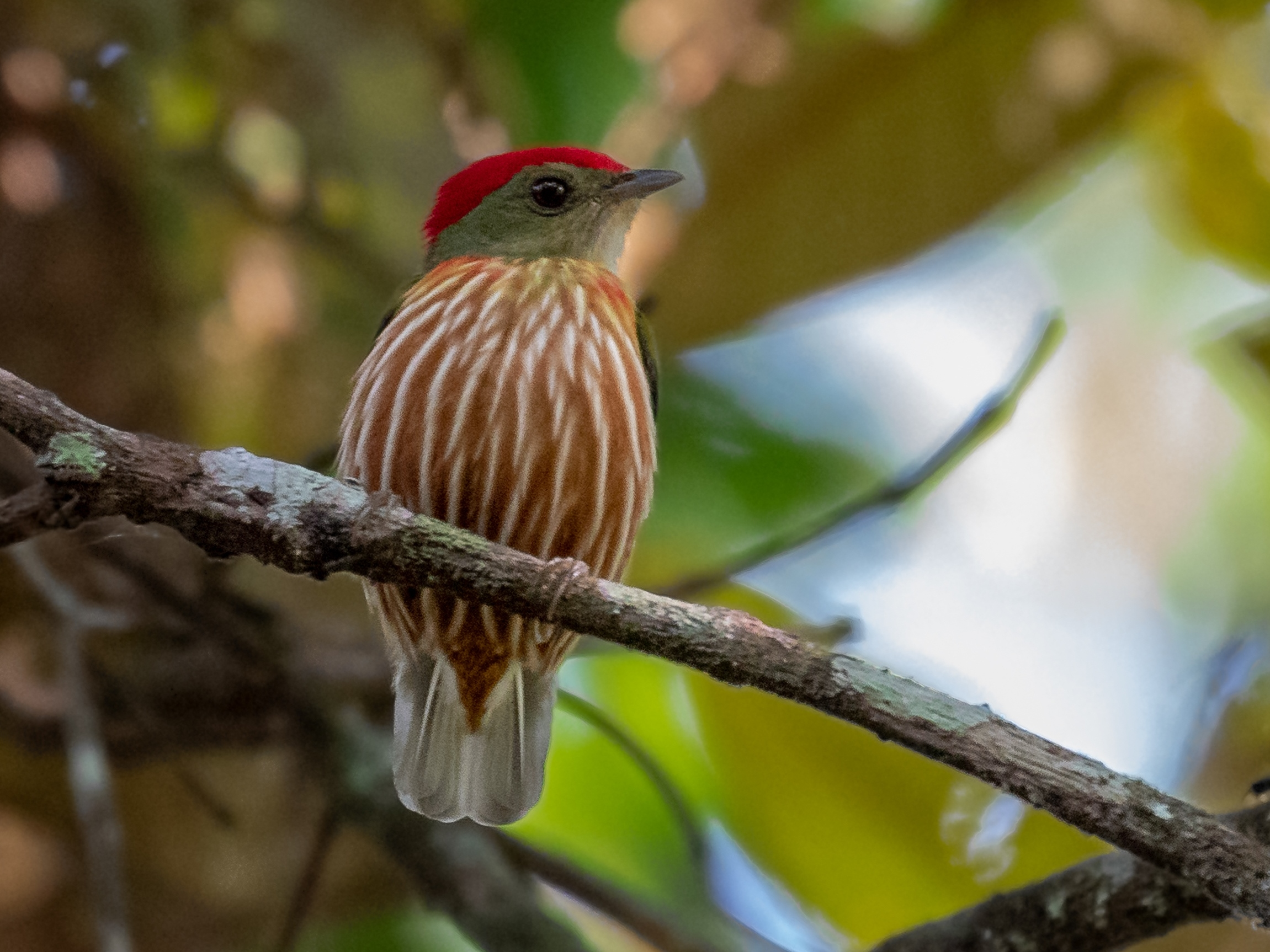 Western Striped Manakin (male); Serra do Divisor National Park, Acre, Brazil